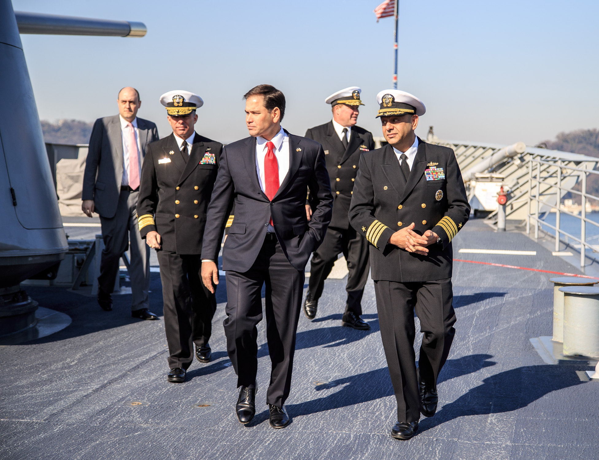 Sen. Marco Rubio, U.S. senator for Florida, walks with Capt. Kurush F. Morris, commanding officer of the Ticonderoga-class guided-missile cruiser USS Shiloh (CG 67), during a recent visit to Japan. Shiloh is assigned to Commander, Task Force 70 and home ported in Yokosuka, Japan. (U.S. Navy Photo By Fire Controlman 2nd Class Kristopher G. Horton/Released)